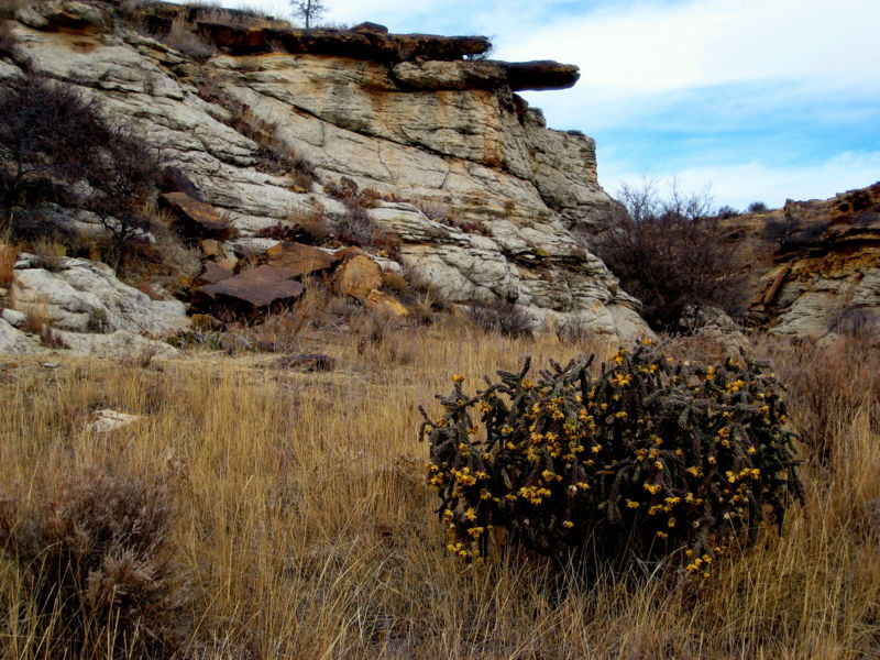 A photo of Picture Canyon in the Comanche National Grassland, Colorado